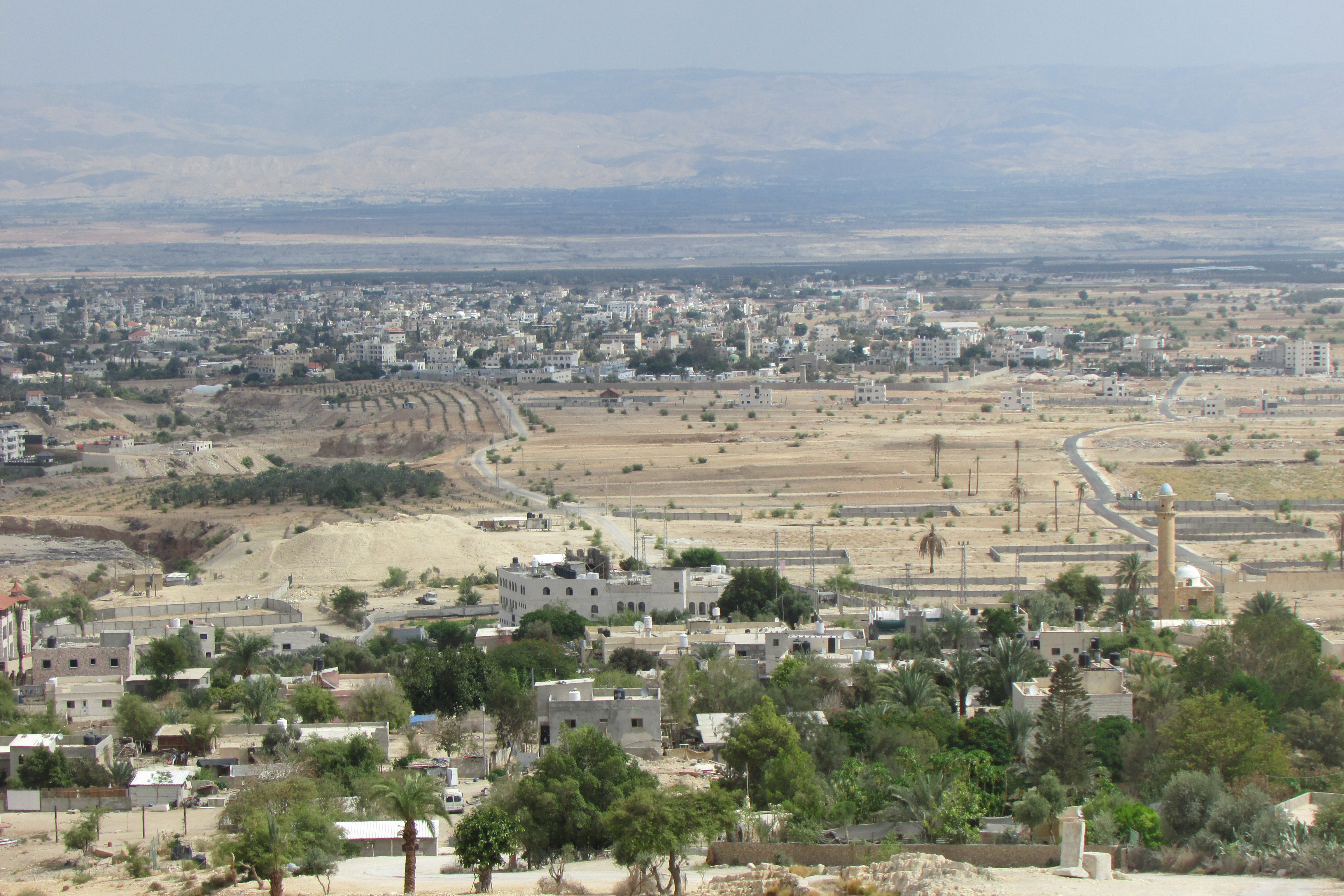 The closer houses with the green trees are the northern edge of Aqabat Jaber. Father behind is the southern part of Jericho. Between them is the first herodian palace.